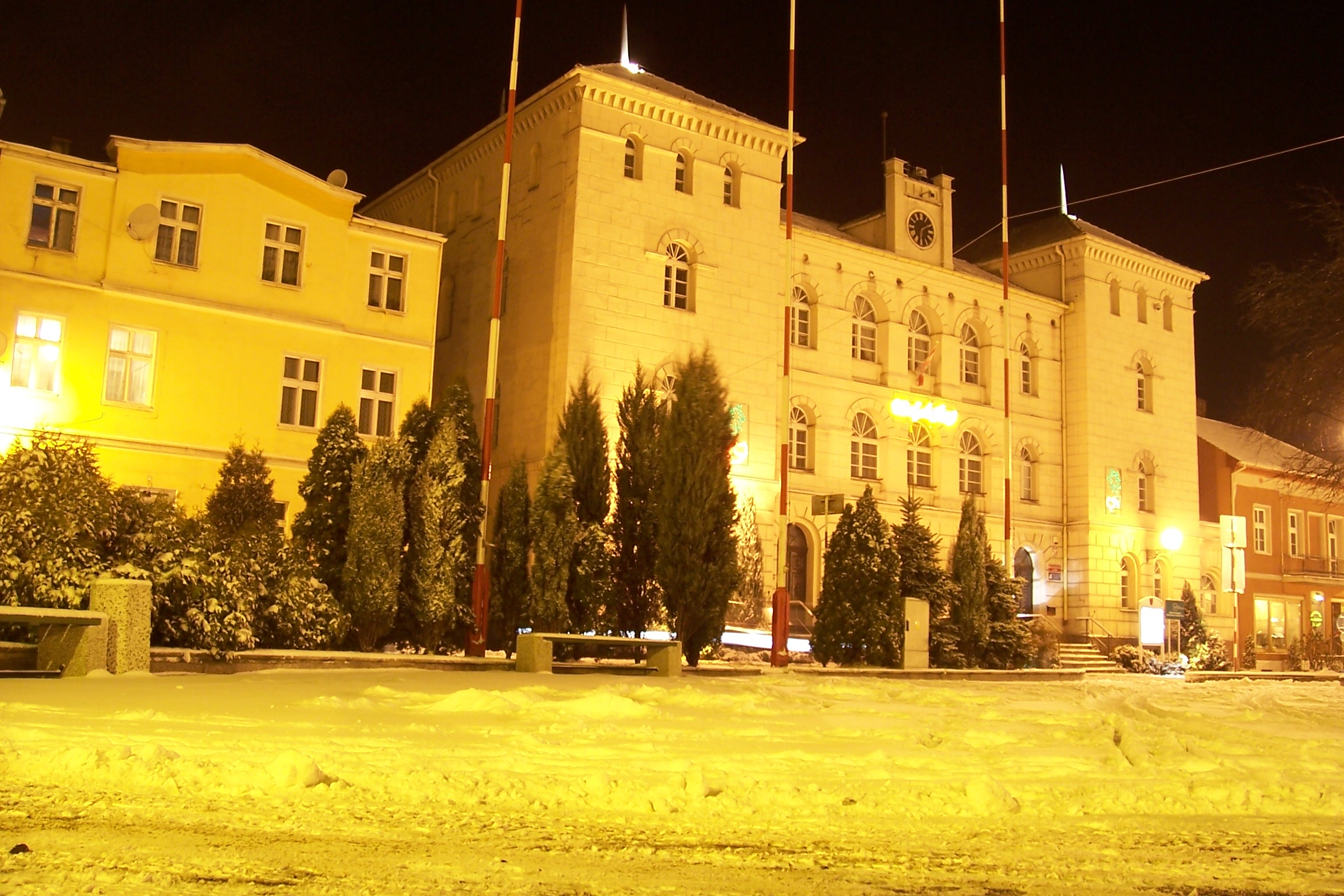 Śrem City Hall at night